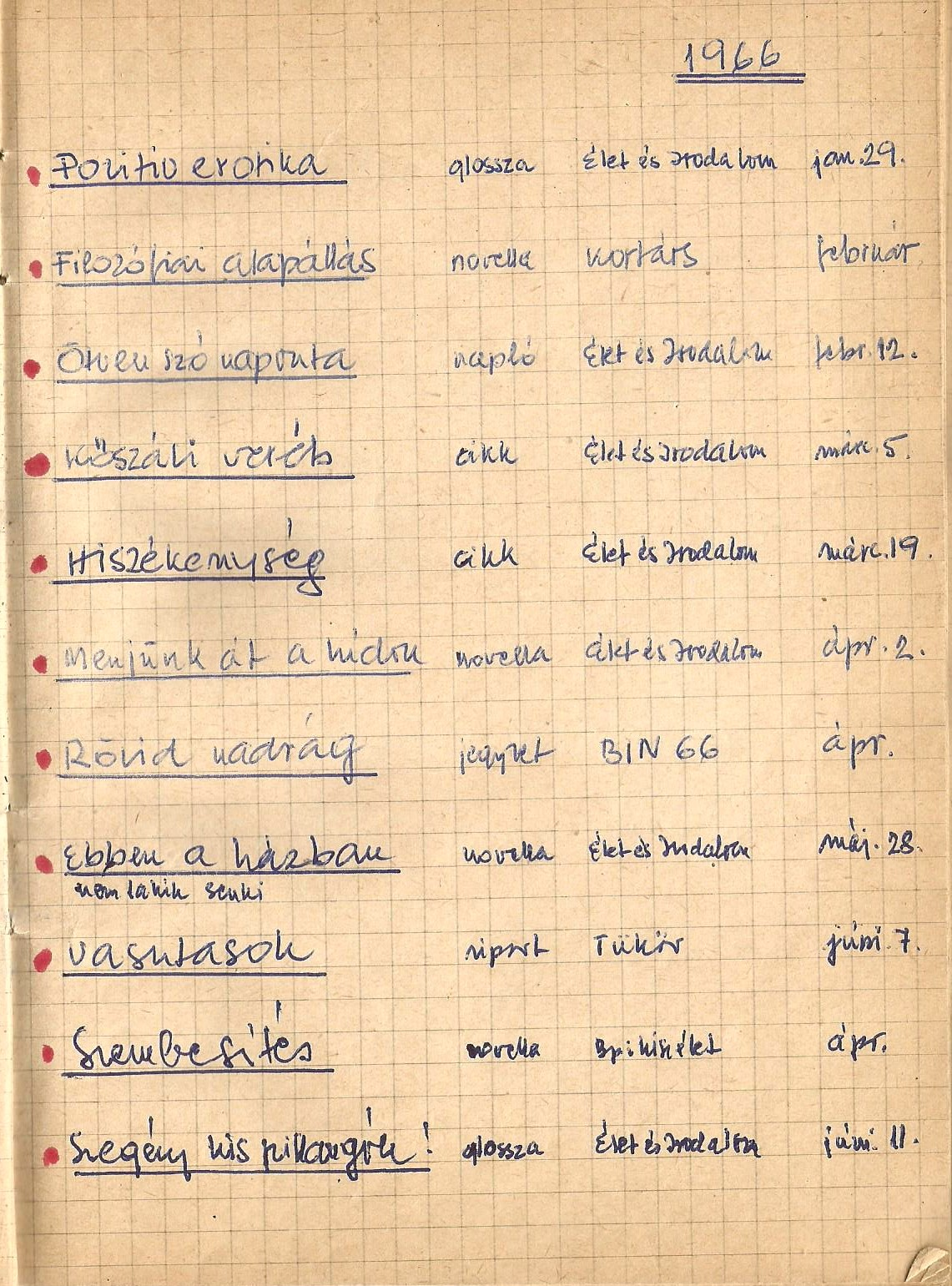 Manuscript of Hungarian writer, Tamas Pinter (Jelenések könyve)